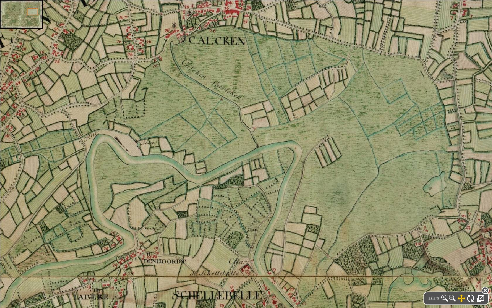 kalkense meersen, Belgium, ferrariskaart, 1775.jpg